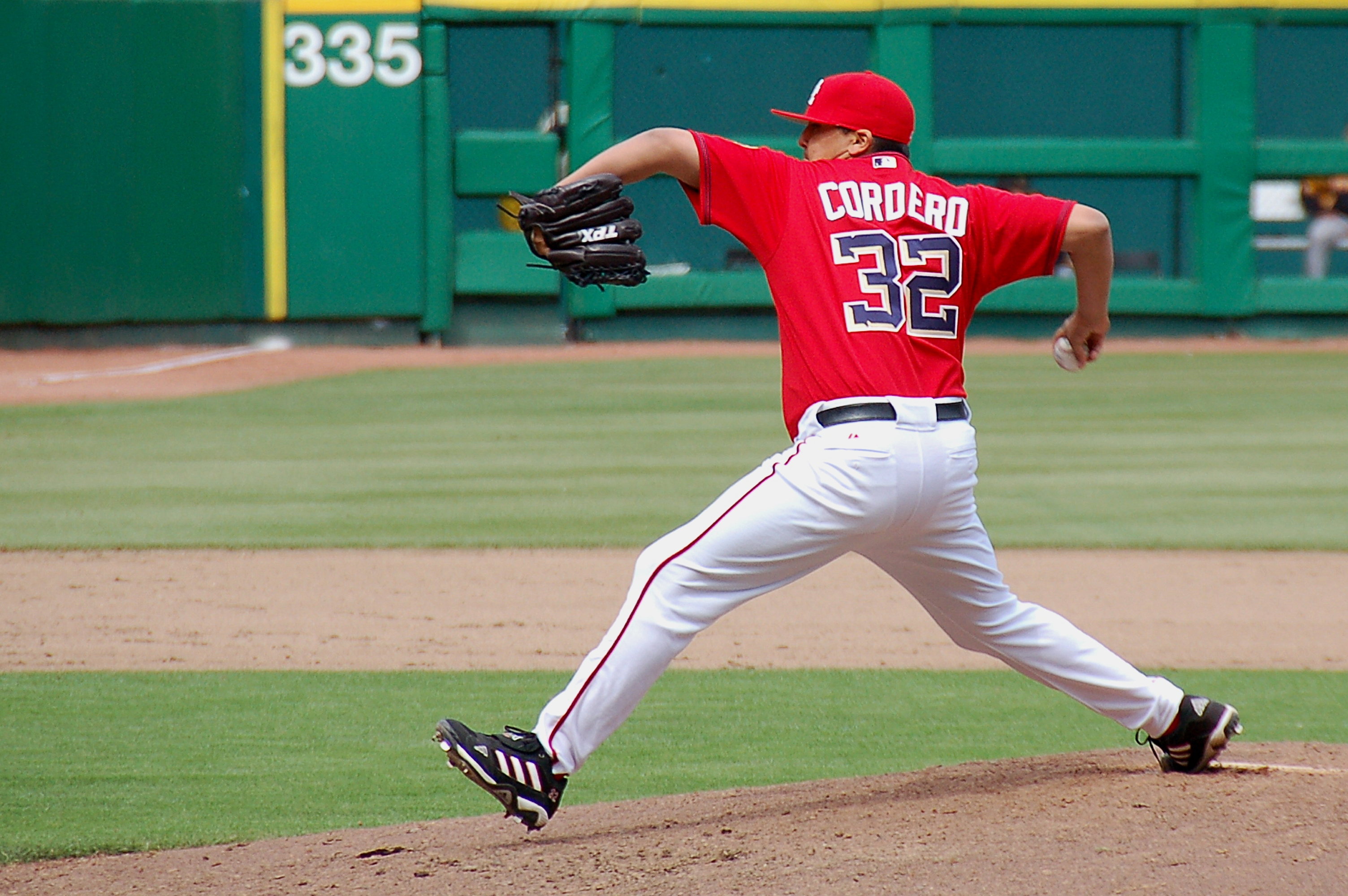 Chad Cordero notches his 3rd save of the season as the Washington Nationals defeat the Pittsburgh Pirates 5-4 on May 7 at RFK Stadium.